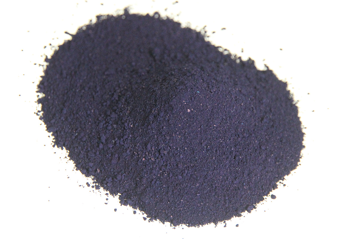 Ferrocine